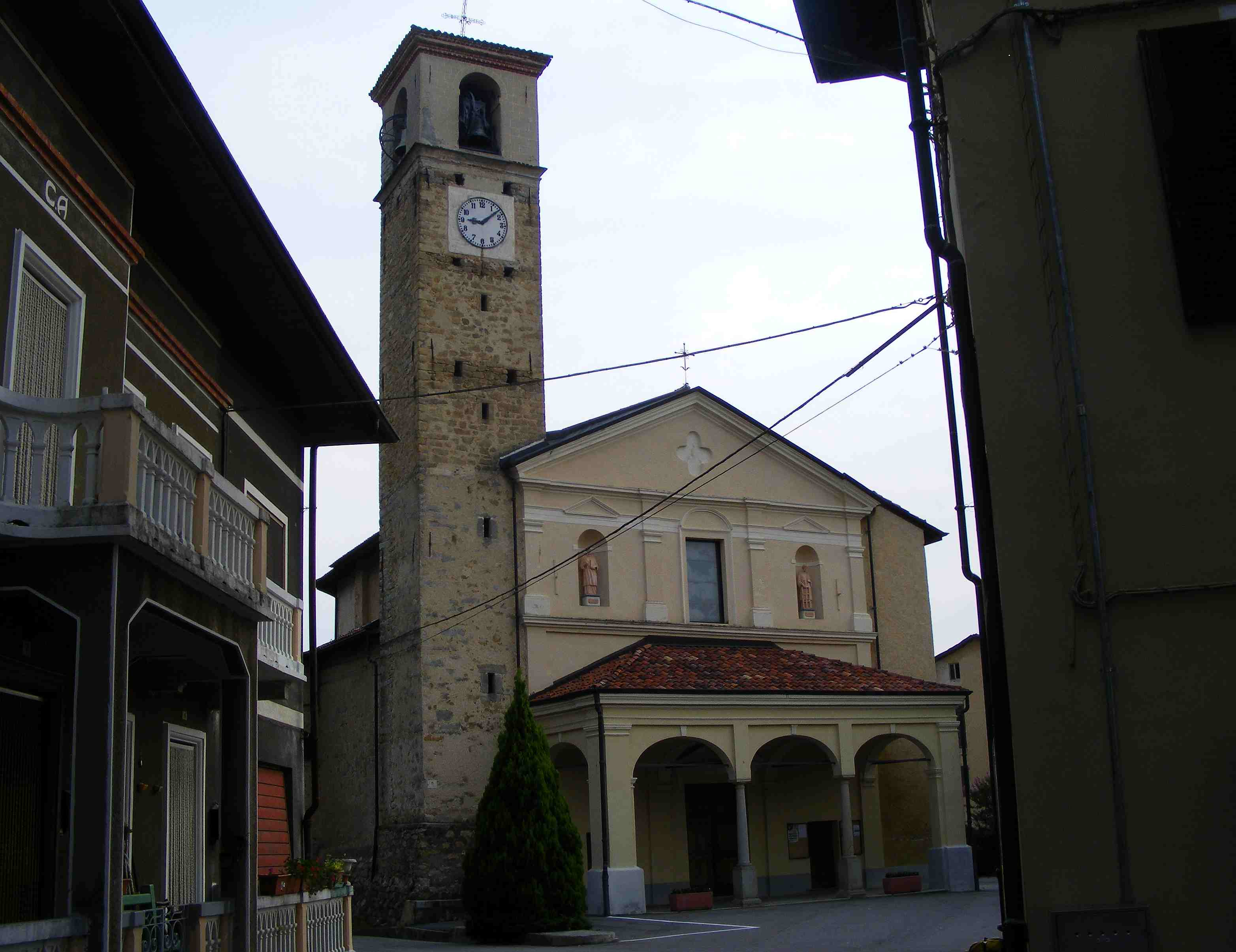 Casapinta (BI, Italy): parish church